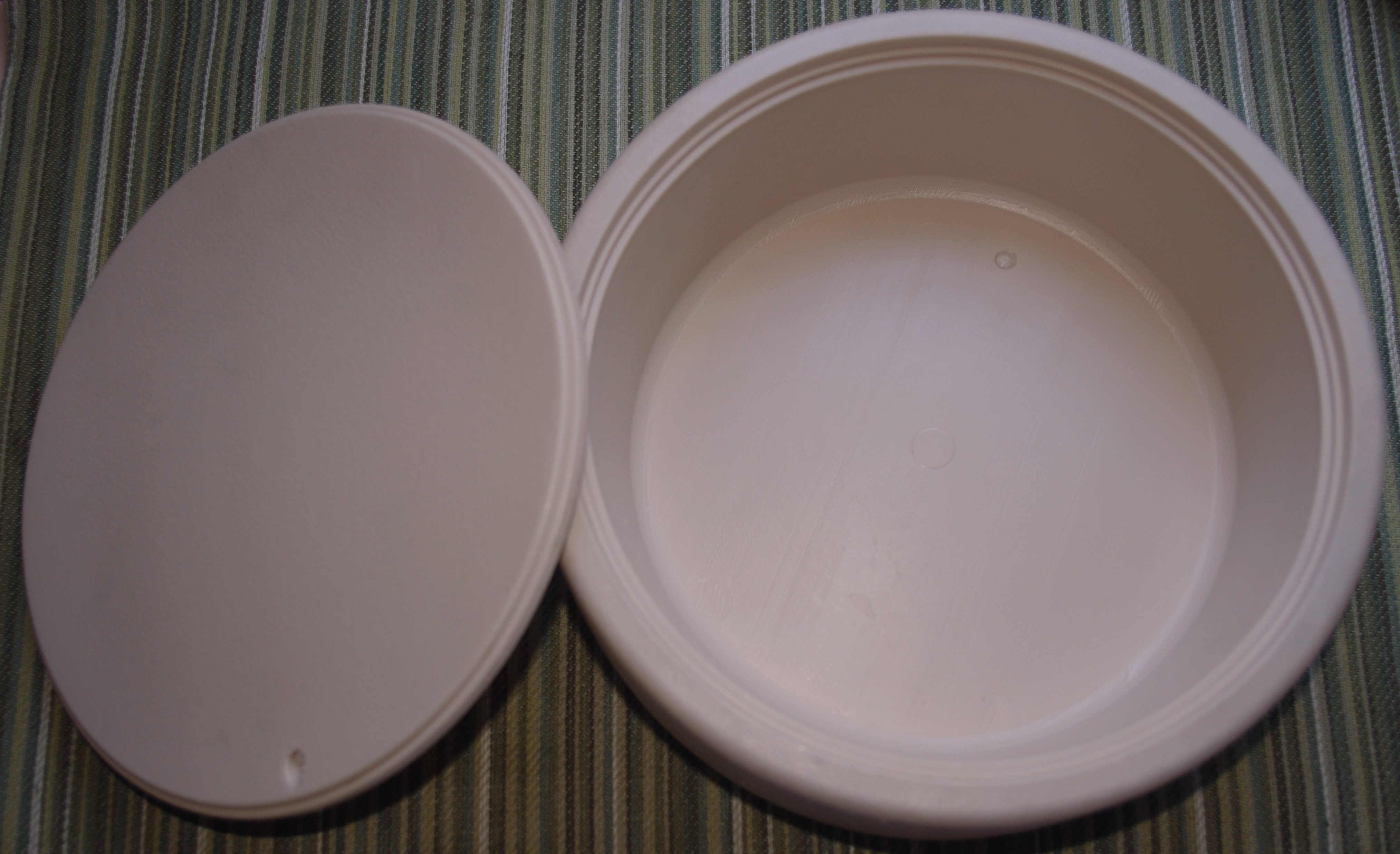 A container used to keep tortillas warm.